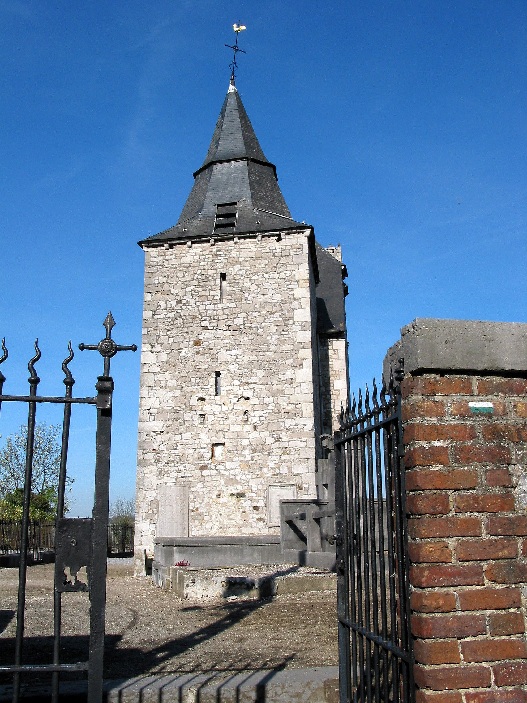 Huy (Belgium), Statte suburb - the old St Etienne of the Mount church (XVII/XIXth century).